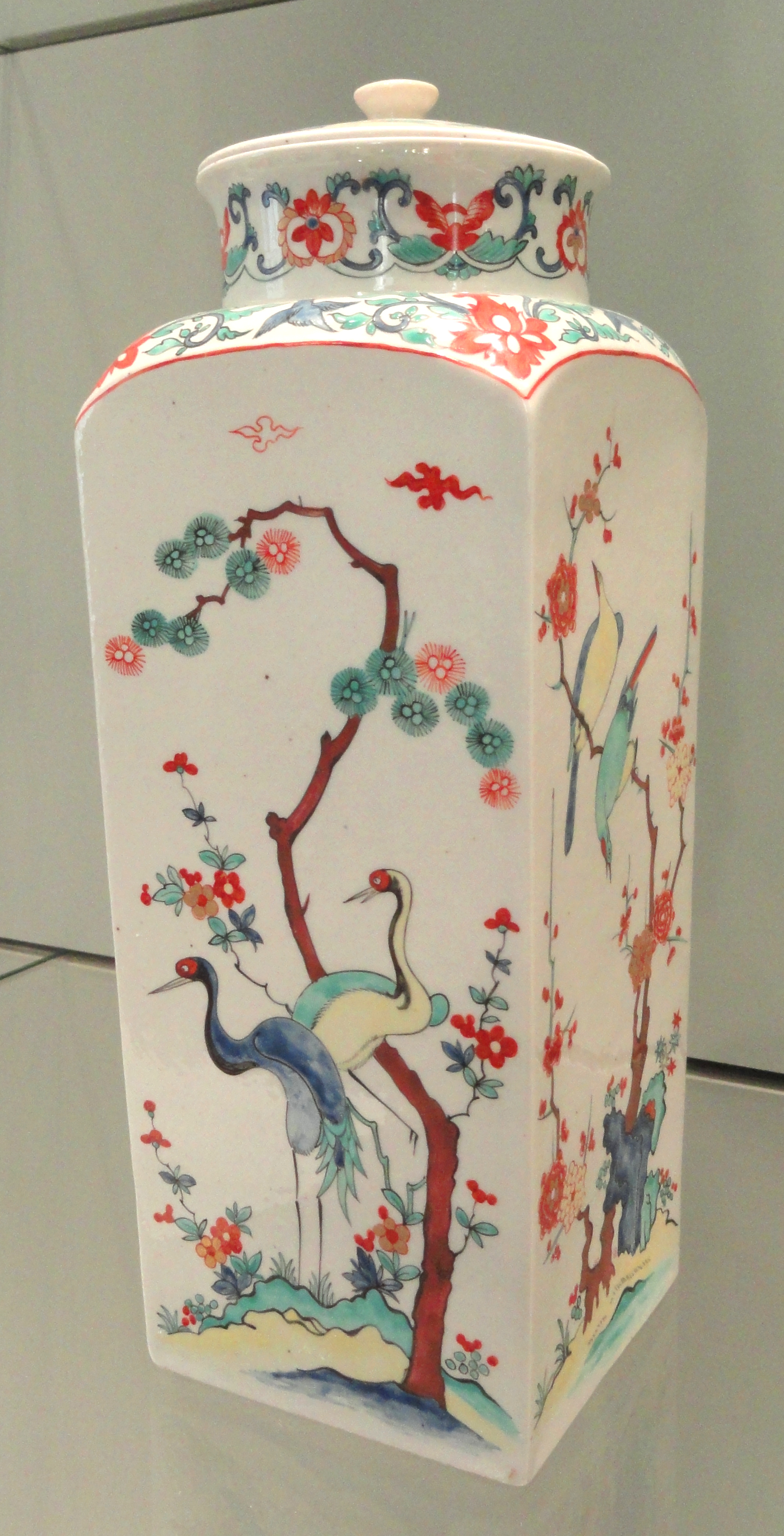 Covered Jar, c. 1850-1900, Samson & Cie, Paris or Montreuil, hard-paste porcelain with overglaze enamels, Kakiemon style. Exhibit in the Gardiner Museum, Toronto, Ontario, Canada. This artwork is in the public domain because the artist died more than 70 years ago.